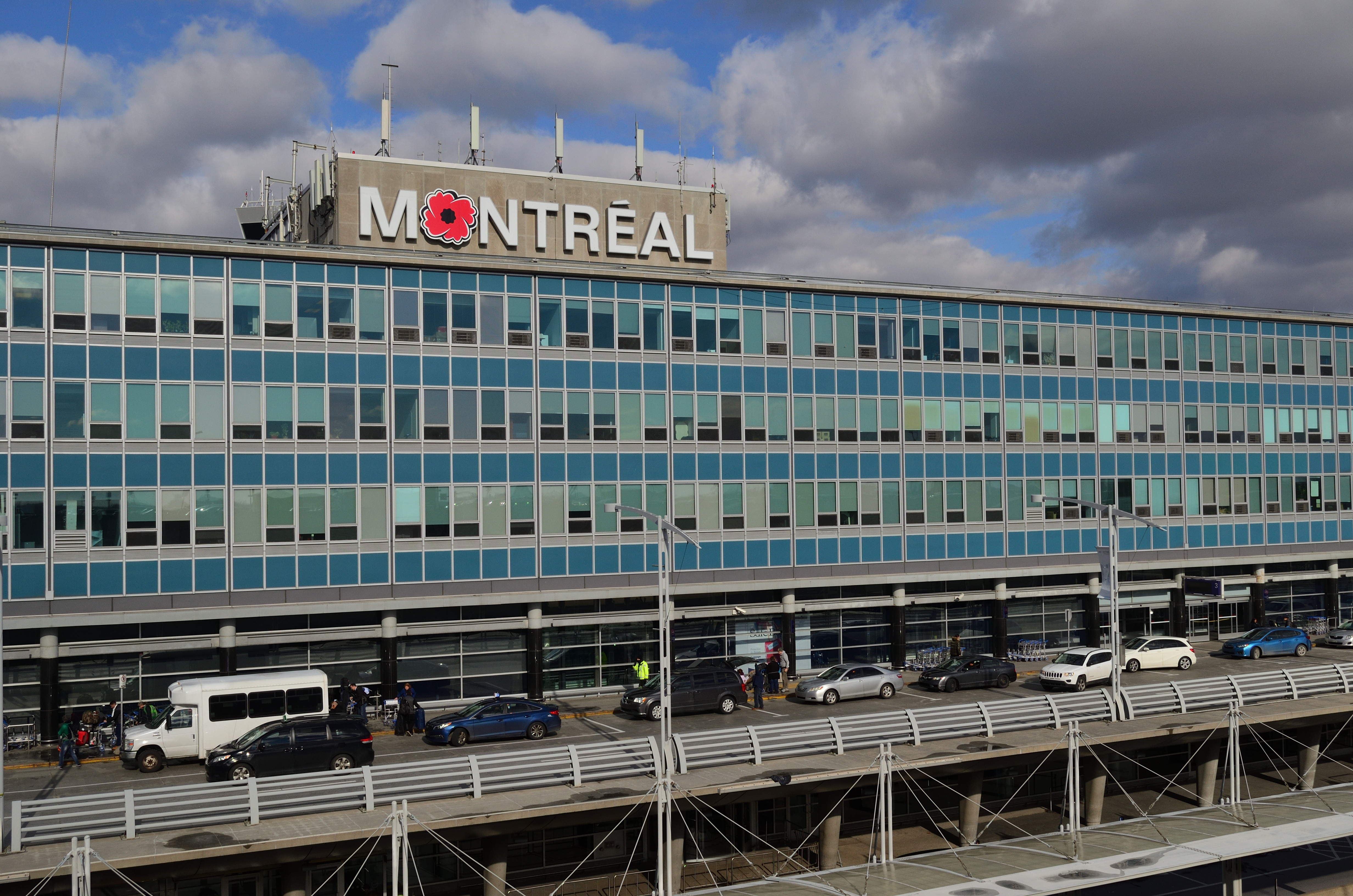 Montréal-Pierre Elliott Trudeau International Airport